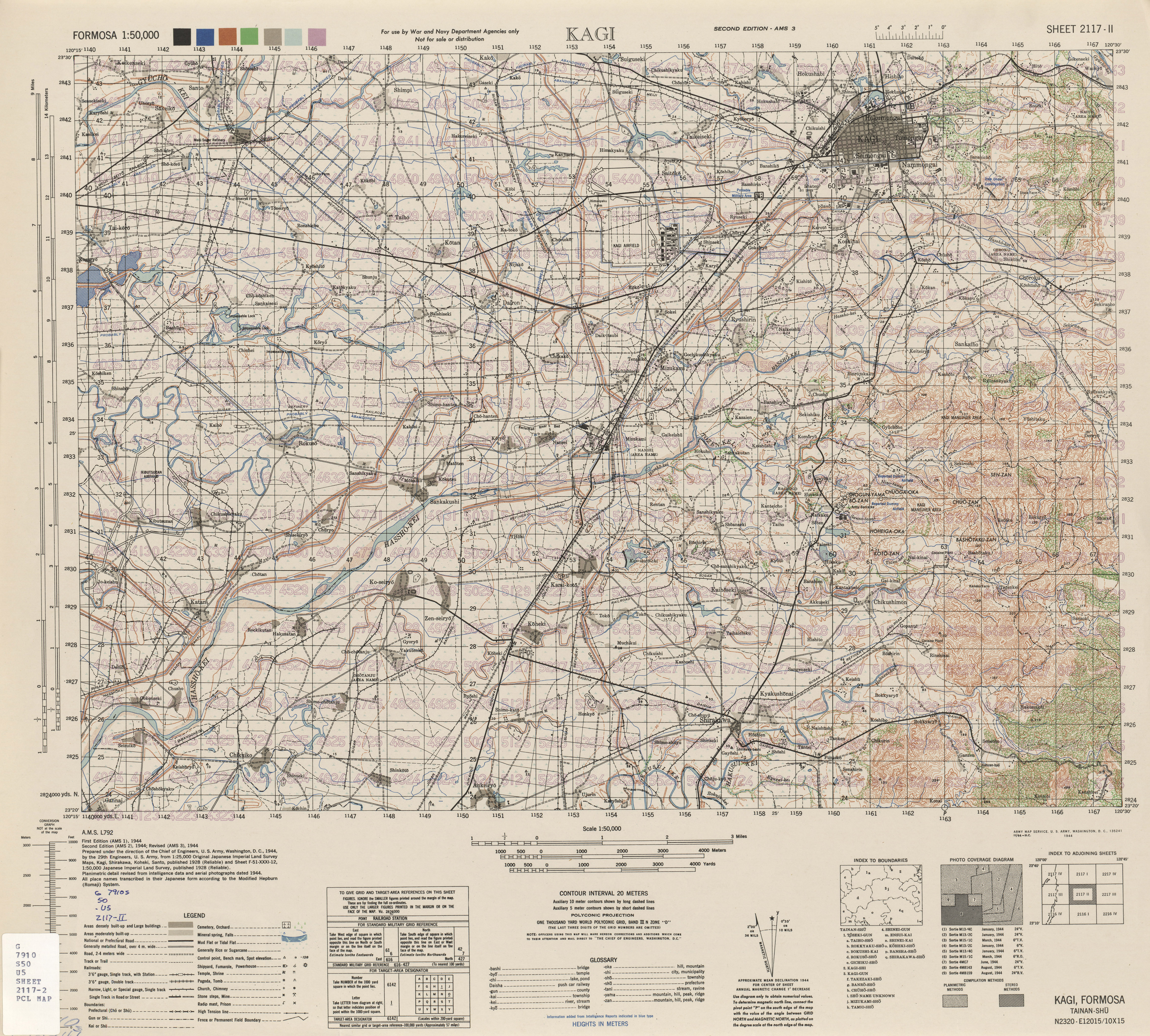 Map from Formosa (Taiwan) 1:50,000 AMS Series L792